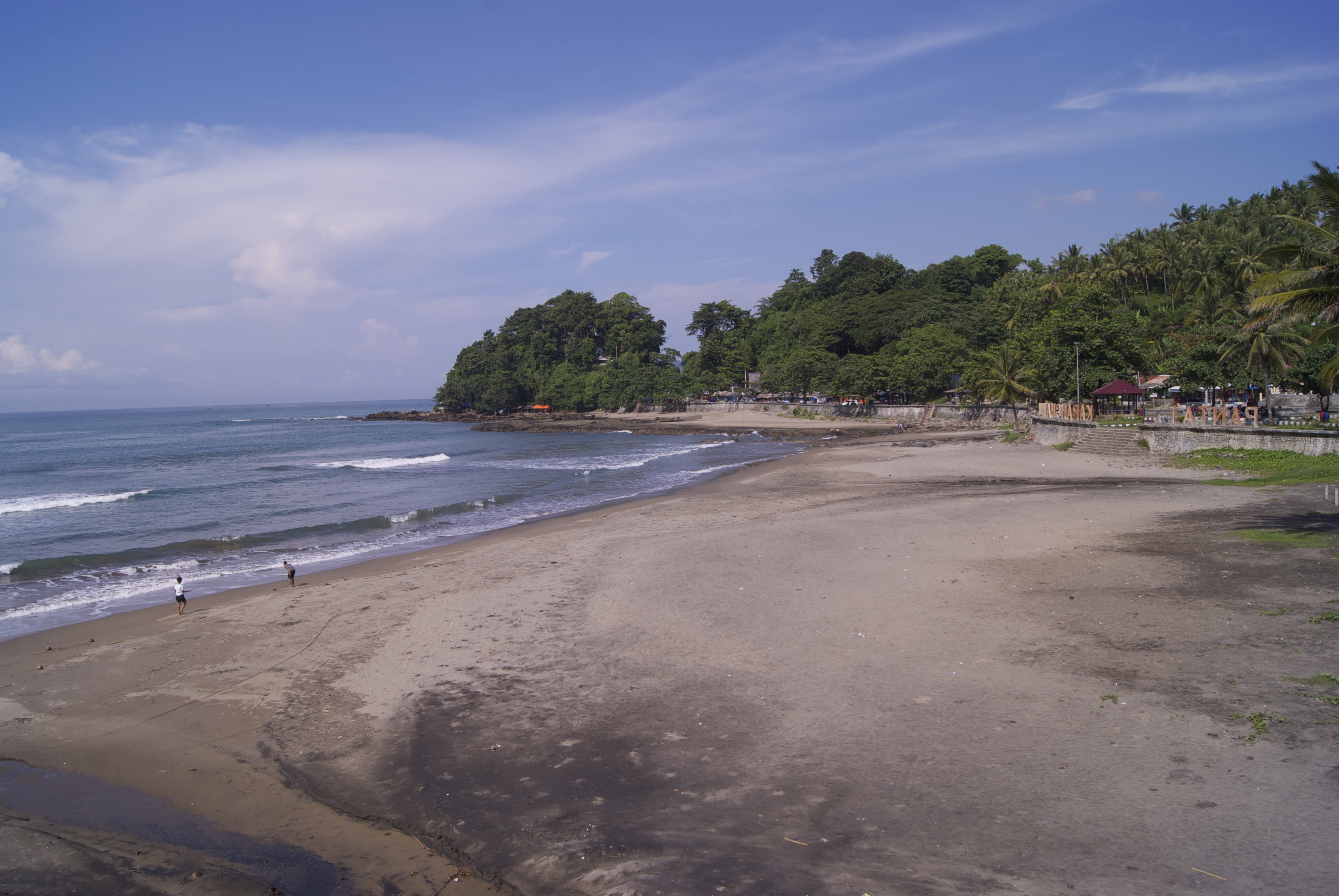 Karanghawu Beach, Sukabumi Regency, West Java